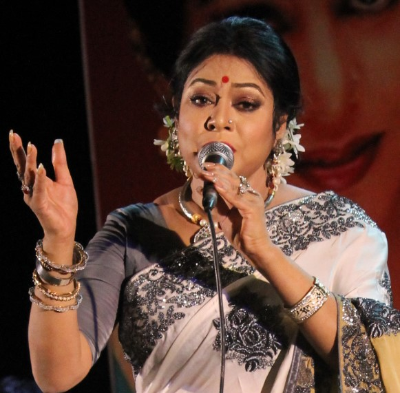 Nazrul Geeti singer Ferdaus Ara